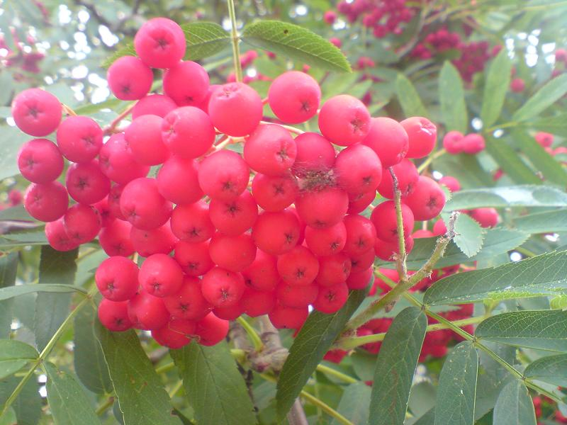 The fruits of the European Rowan (Sorbus aucuparia) in Kew Gardens, England.